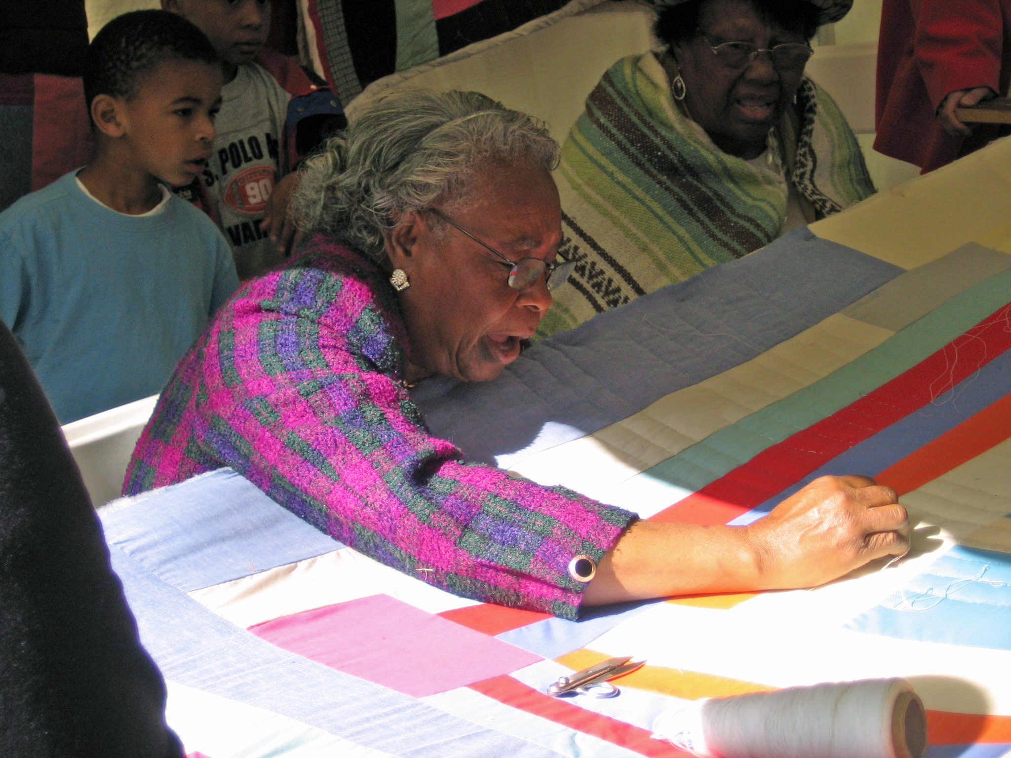 A woman from Gee's Bend works on her portion of a quilt during the 2005 ONB Magic City Art Connection in Birmingham, Alabama's Linn Park. Click here to view the post on my blog about the women of Gee's Bend and the Year in Alabama Arts.